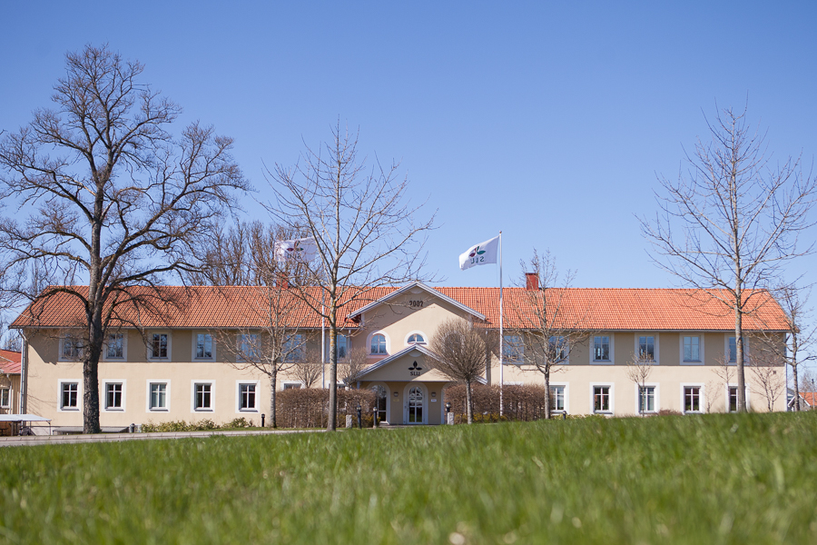 The Research building at SLU in Skara.